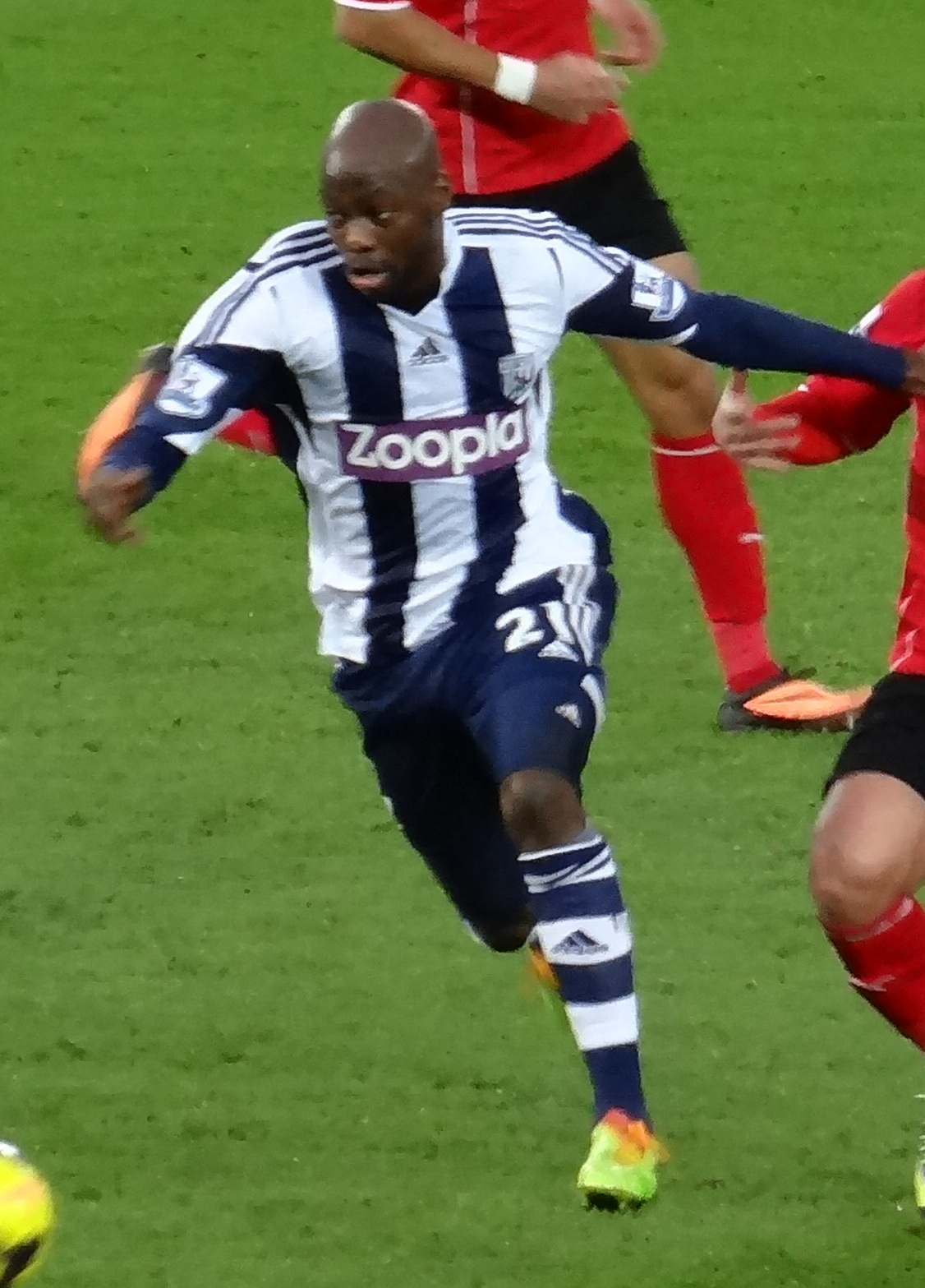 Youssouf Mulumbu playing for West Bromwich Albion against Cardiff City in 2013.